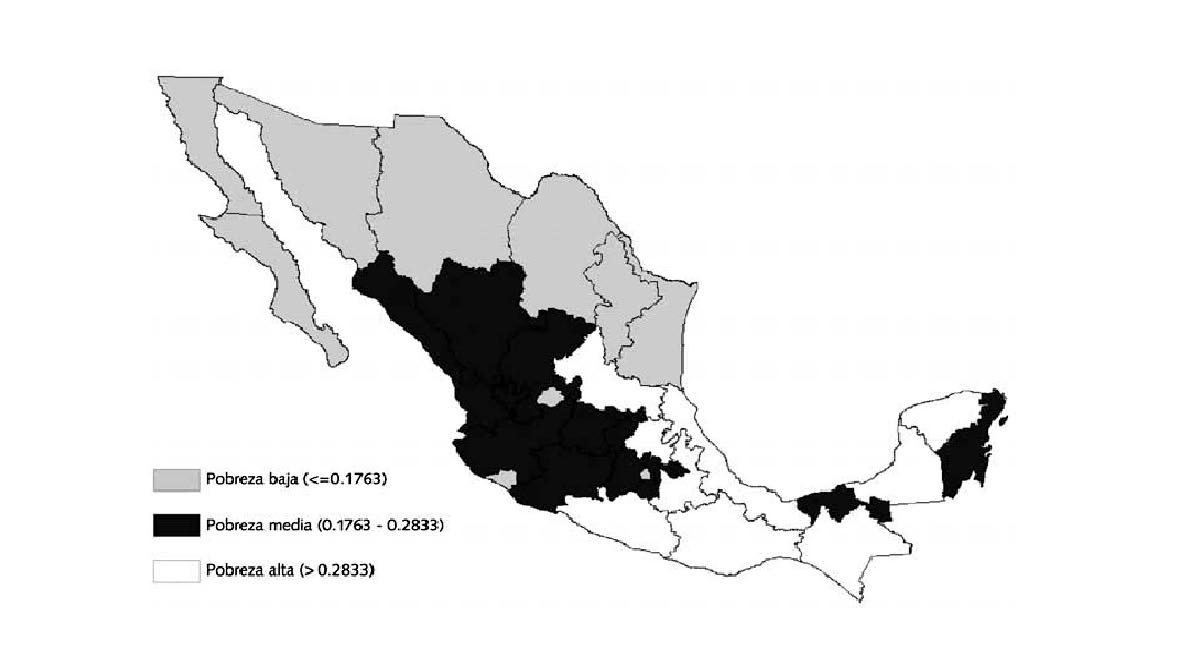 Map which show the mexican states according to the degree of poverty.